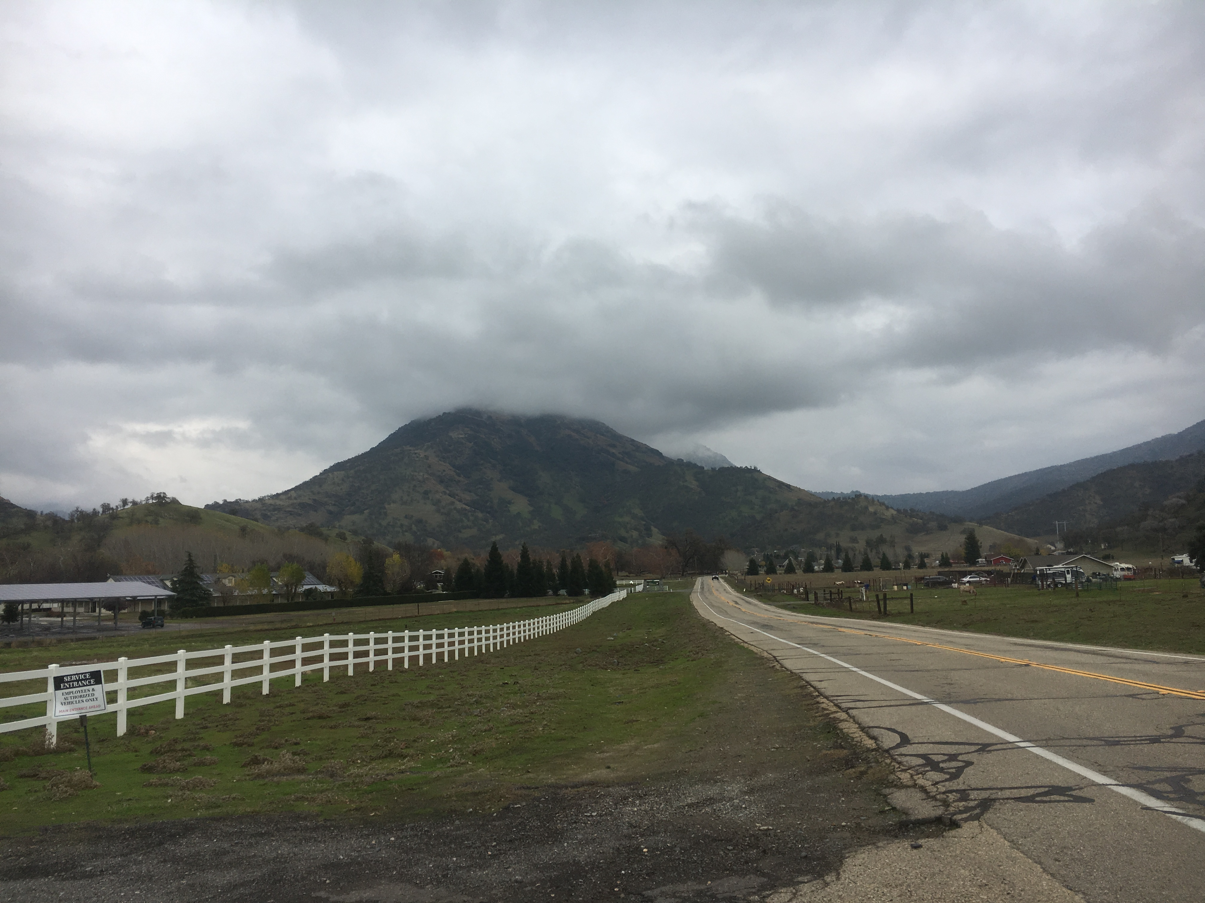 Dalton Mountain, Fresno County, California, as viewed from the Wonder Valley Resort Ranch on Christmas Eve 2019, where Grat Dalton, and his accomplice Riley Dean, were tracked down by lawmen in 1891.